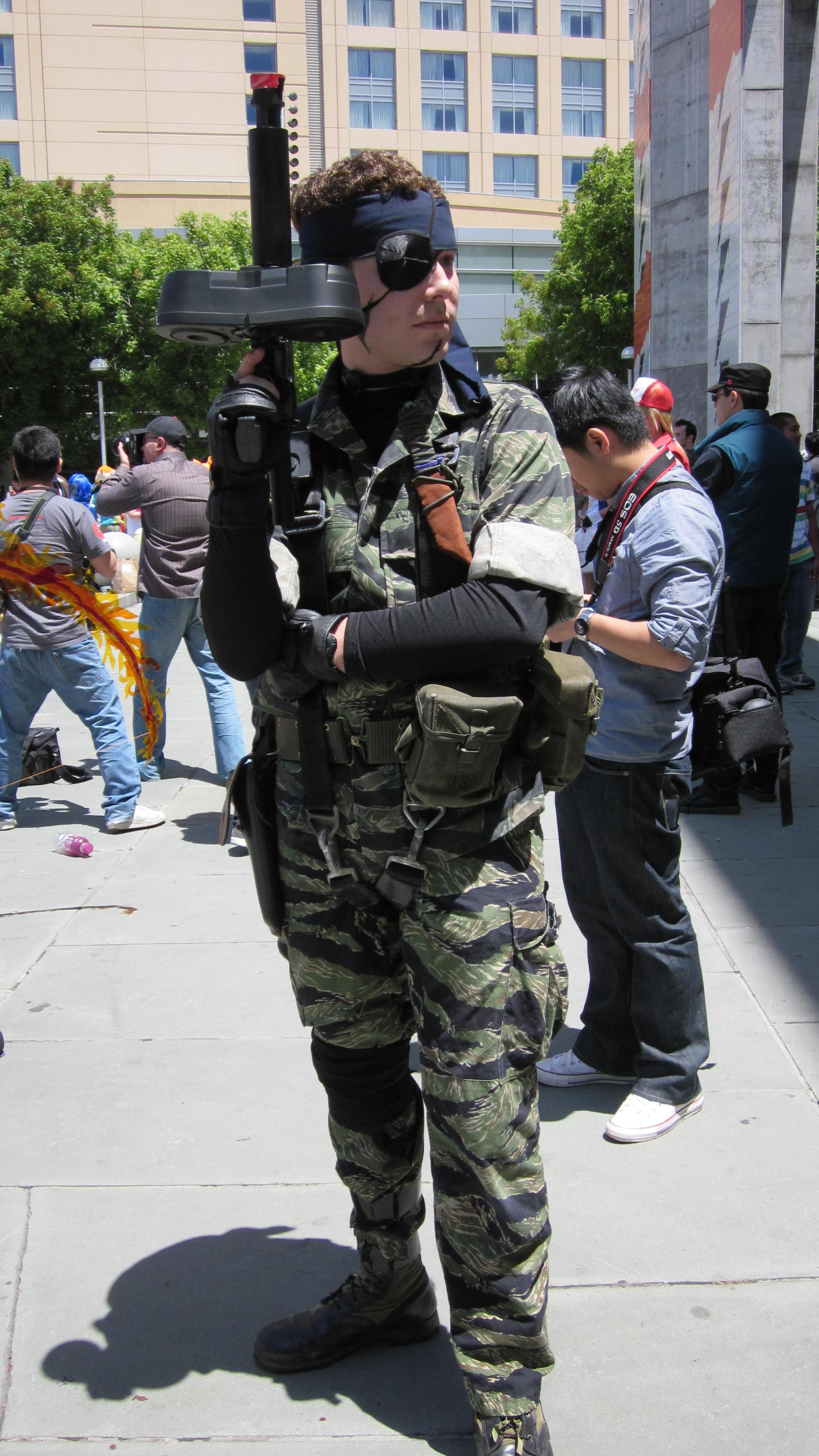 A cosplayer portraying Naked Snake/Big Boss from Metal Gear at FanimeCon 2010 in San Jose, California.